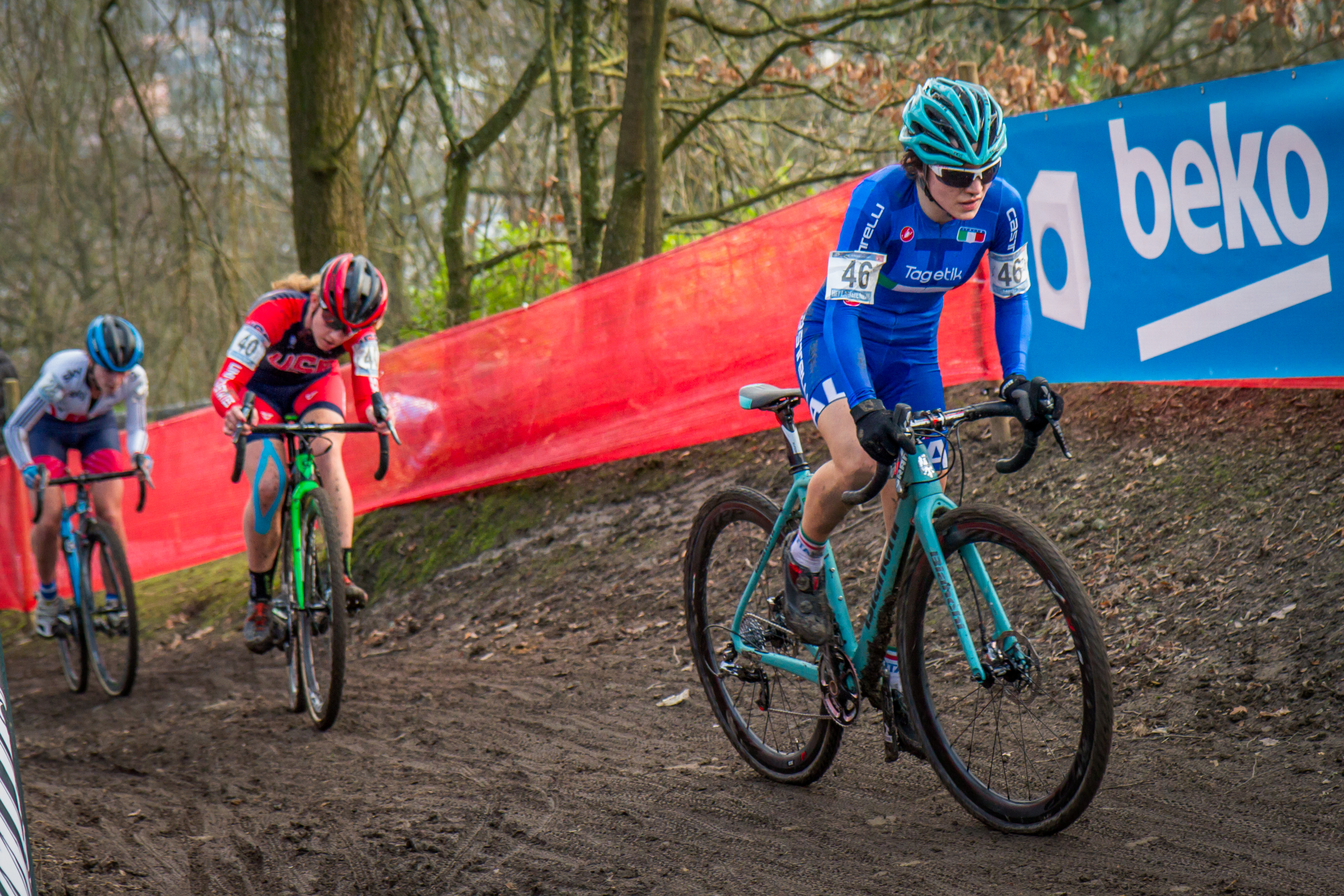 Chiara Teocchi (ITA), Emma White (USA) and Hannah Payton (GBR). UCI Cyclocross World Cup, Namur, 2015.